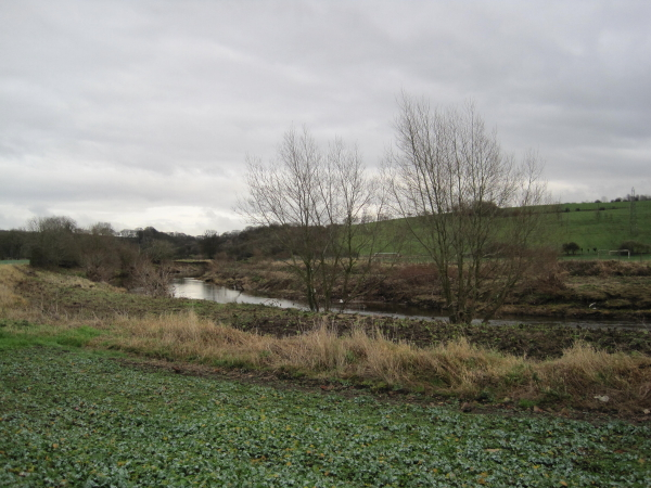 River Wear and farmland near Durham City